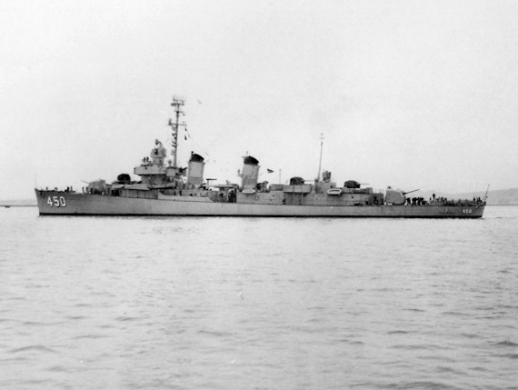 The U.S. Navy destroyer USS O'Bannon (DDE-450) off the Mare Island Naval Shipyard, California (USA), on 1 March 1951. She was in overhaul at the shipyard from 19 February to 24 March 1951.